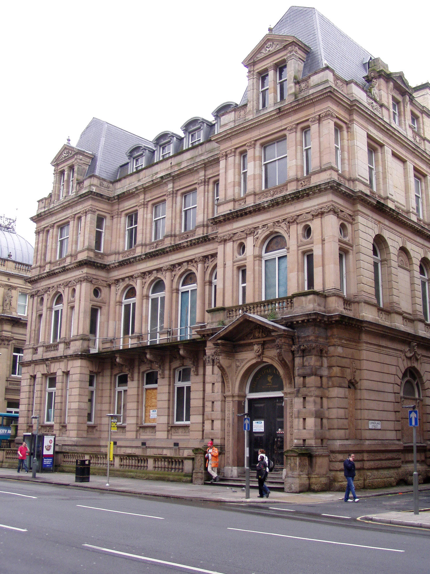 Municipal Annexe dale street Liverpool.